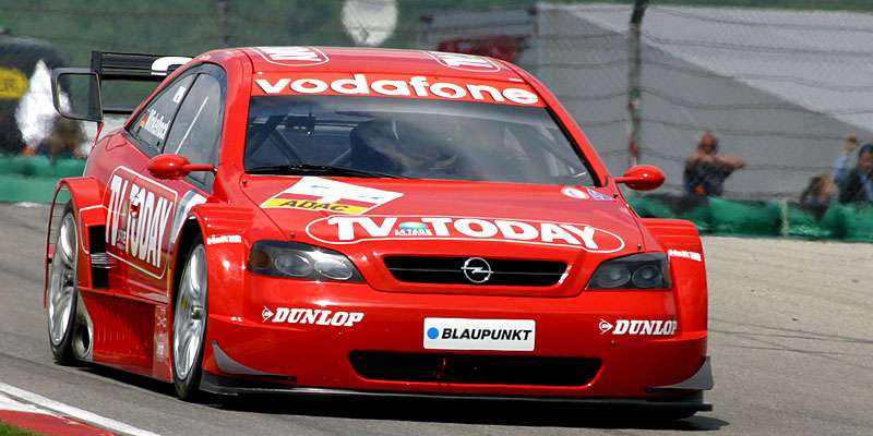 Joachim Winkelhock, Opel, DTM on Sachsenring Circuit.